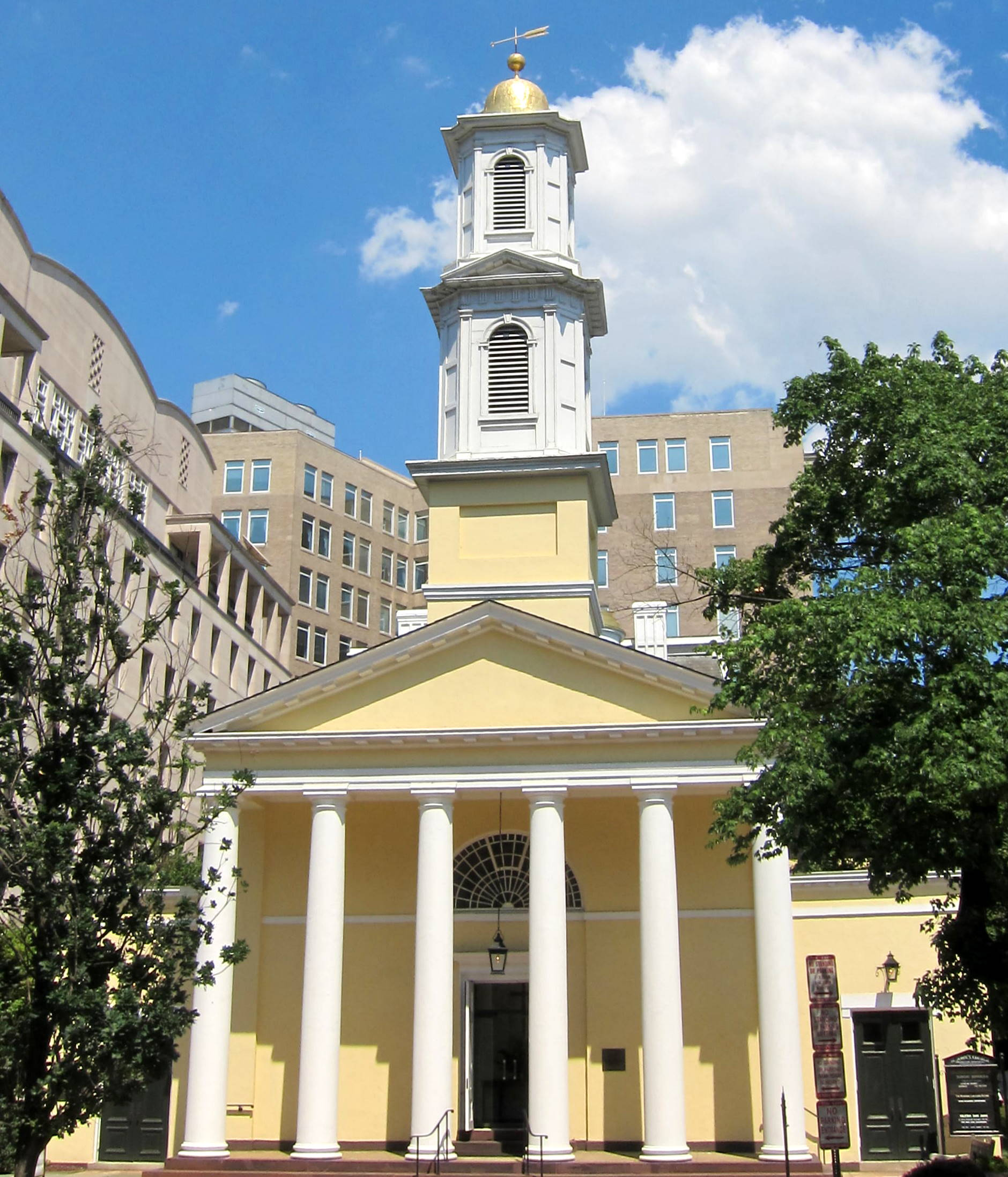 St. John's Episcopal Church (also known as the "Church of the Presidents") located at 1525 H Street, N.W., in downtown Washington, D.C. Built in 1816 to the designs of noted architect Benjamin Henry Latrobe, the federal-style church is designated as a National Historic Landmark. In addition, the building is designated as a contributing property to the Sixteenth Street Historic District and Lafayette Square Historic District.